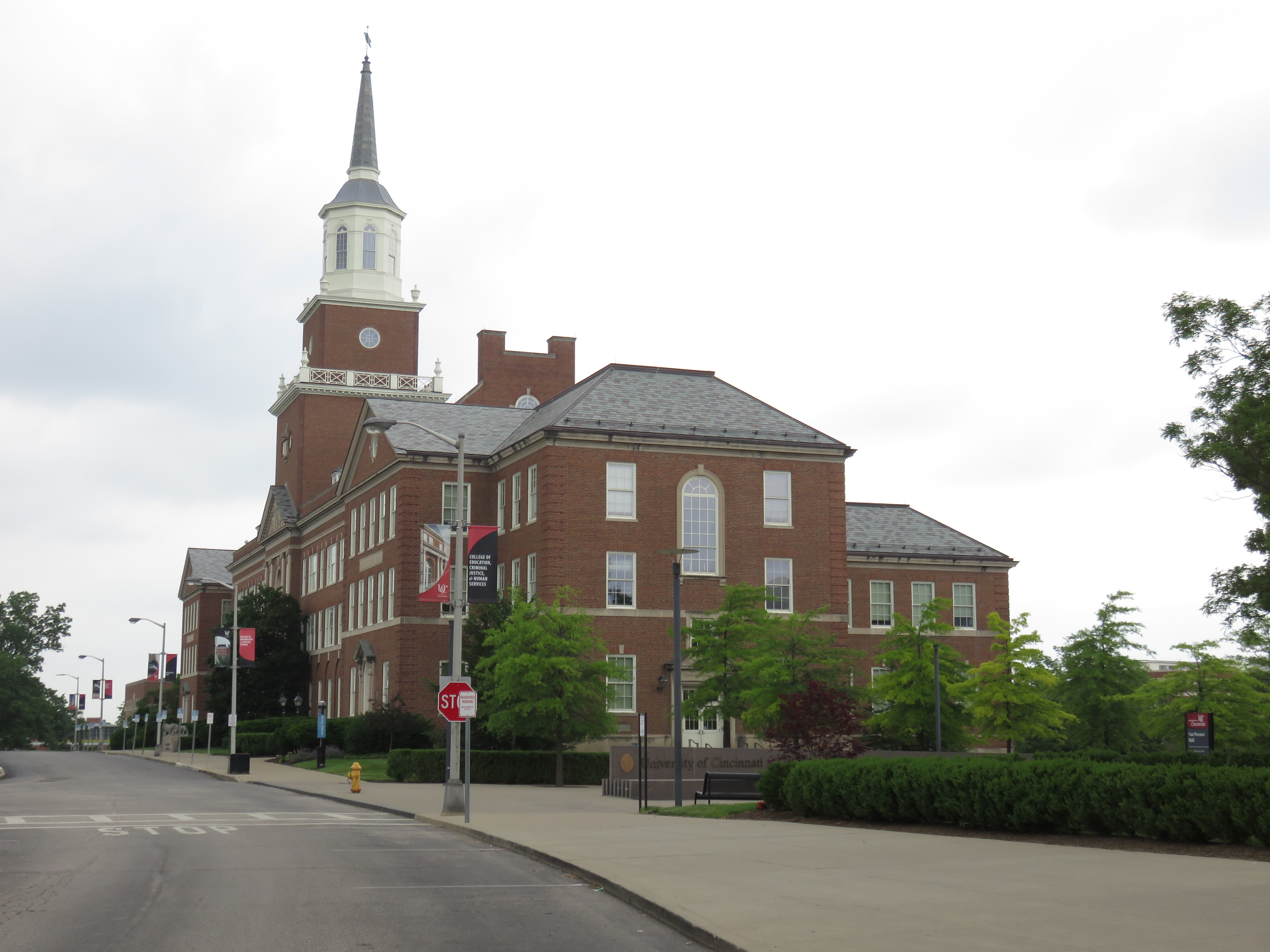 McMicken Hall at the University of Cincinnati in 2017